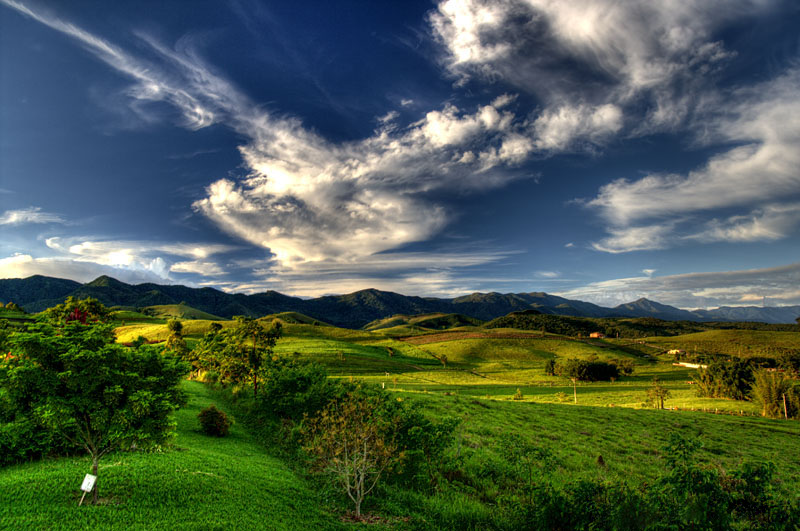 [Explored, highest position #1 on Jan 17, 2008] This is the view I've got where I stay during Christmas with my family. Taubaté, São Paulo, Brazil HDR generated from 3 RAW exposures, bracketed +1/-1 EV. For a 360° panorama photo of this place, click here. - - - Esta é a vista de onde eu estava no natal com minha família. Taubaté, SP, Brasil HDR gerado com 3 fotos RAW, ajustadas +1/-1 EV. Para um panorama 360° desse lugar, clique aqui.